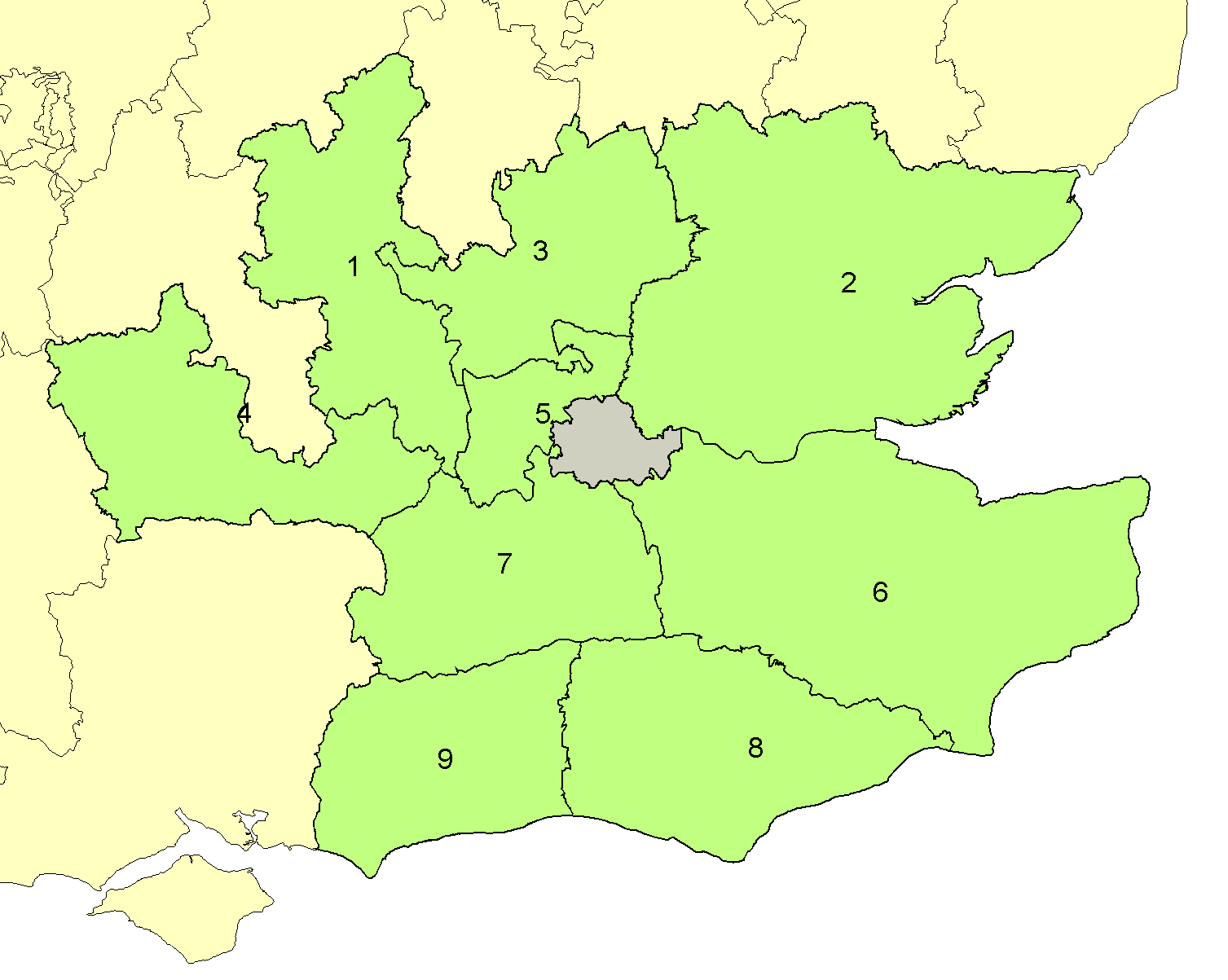 Home Counties in 1921.